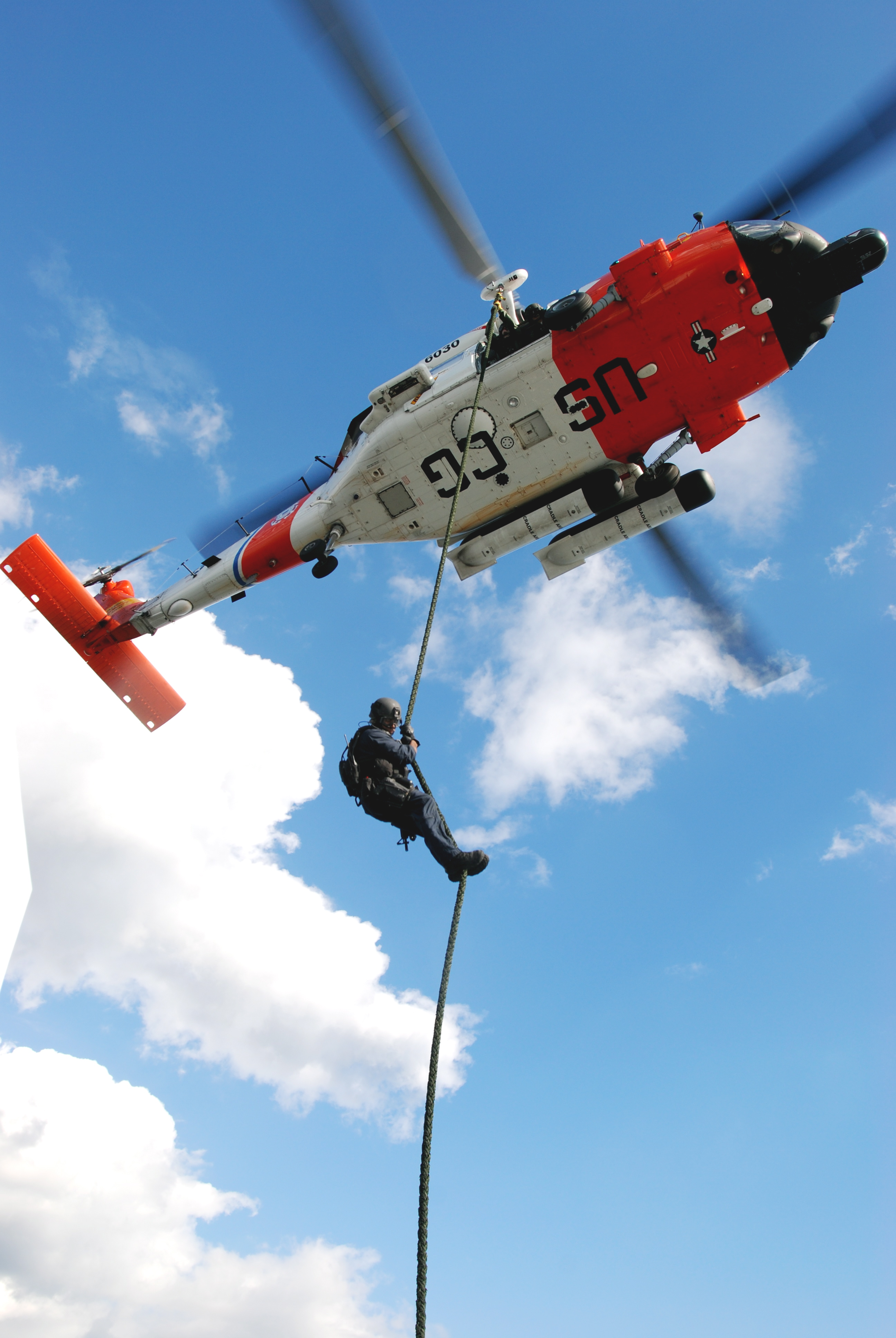 A Maritime Safety and Security Team member conducts a vertical insertion demonstration from an HH-60 Jayhawk helicopter from Air Station Astoria, Ore., during Seattle Seafair on Lake Washington, Saturday. Seafair is one of the Pacific Northwest's largest maritime festivals. Nearly 2 million Puget Sound residents attend the festival each summer.